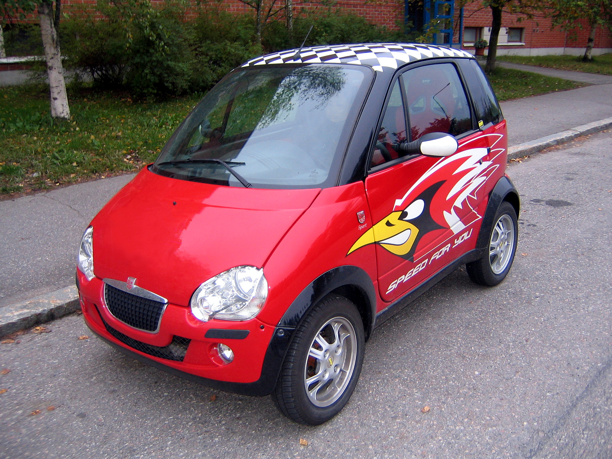 Grecav EKE, an Italian-made light quadricycle (moped), equipped with a two-cylindre 505 cc Lombardini diesel engine.